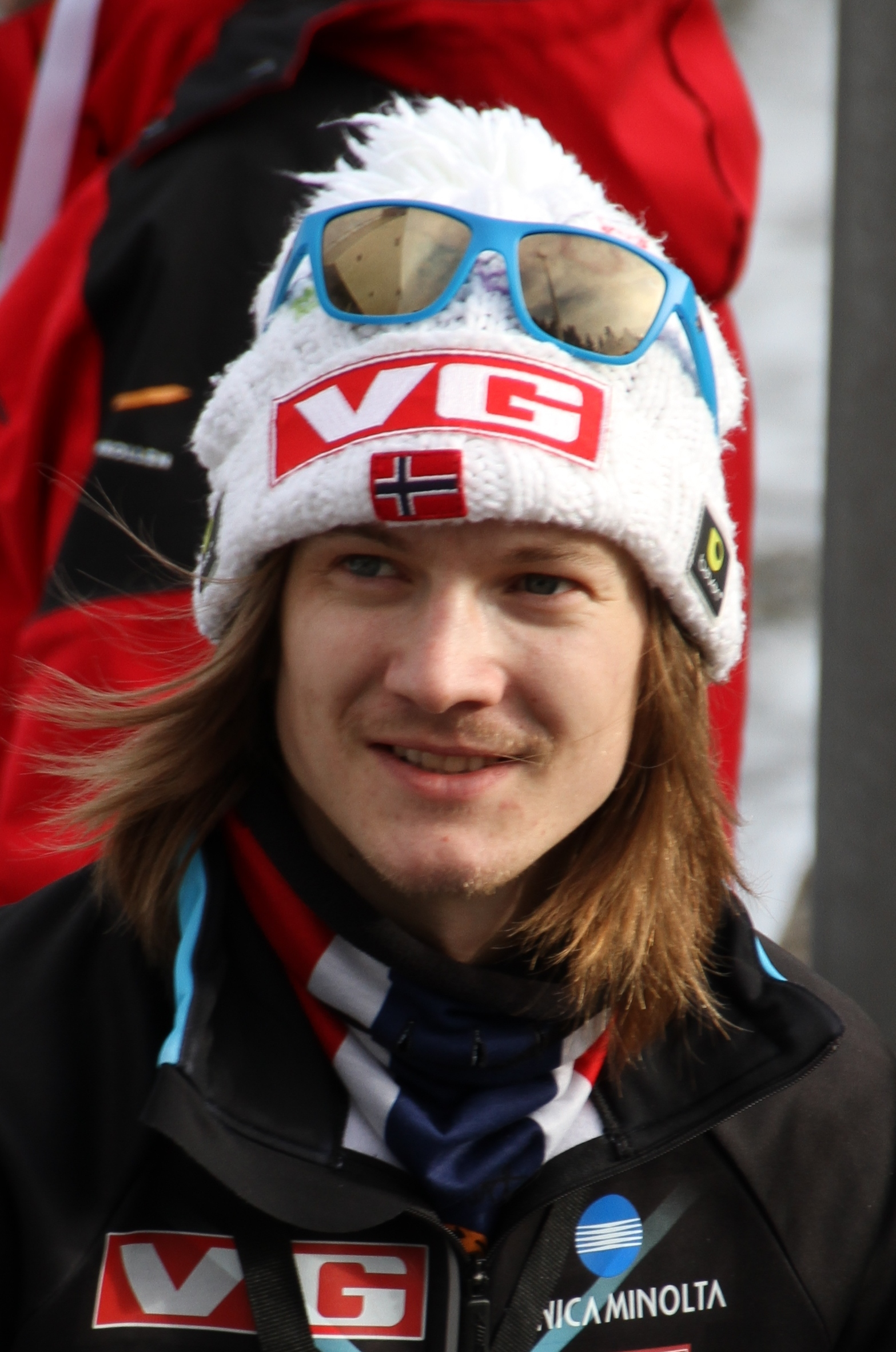 Holmenkollen, Oslo. FIS World Cup Ski Jumping, first round. March 11, 2012. This was the third last WC tournament of the season